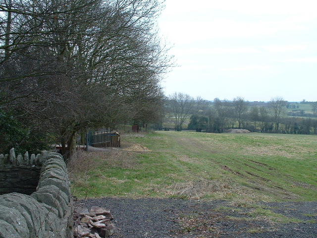 Fields adjacent to Serridge House. Looking towards the golf course